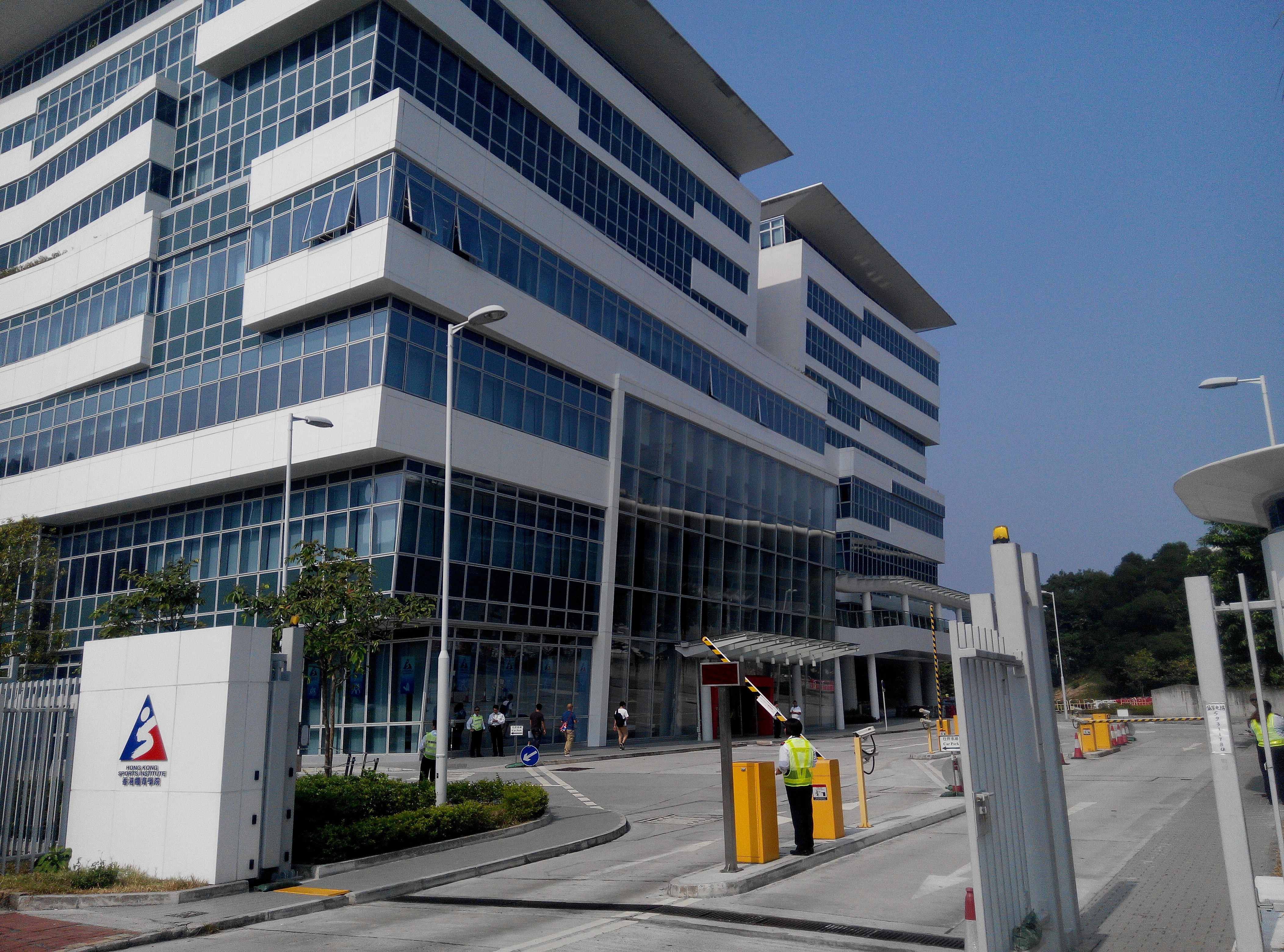 Entrance of HKSI